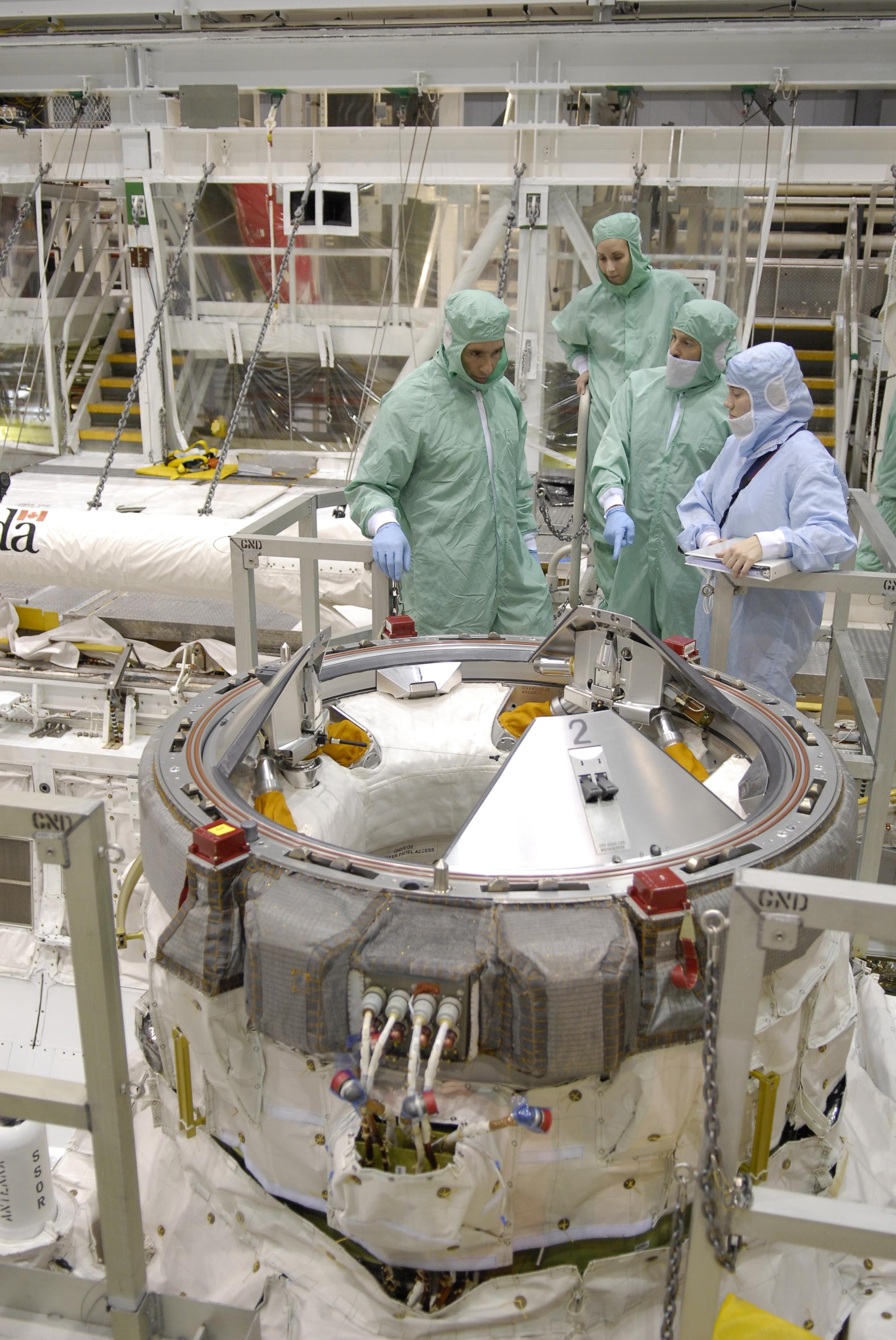 KENNEDY SPACE CENTER, FLA. -- In the Orbiter Processing Facility, STS-117 Pilot Lee Archambault (left) and Mission Specialist James Reilly (second from right) look at a part of the external airlock in the payload bay of Atlantis. They and other crew members are at KSC to take part in a Crew Equipment Interface Test that allows them opportunities to become familiar with equipment and hardware for their mission. STS-117 will deliver the S3/S4 and another pair of solar arrays to the space station. The 21st shuttle mission to the International Space Station, STS-117 is scheduled to launch no earlier than March 16.